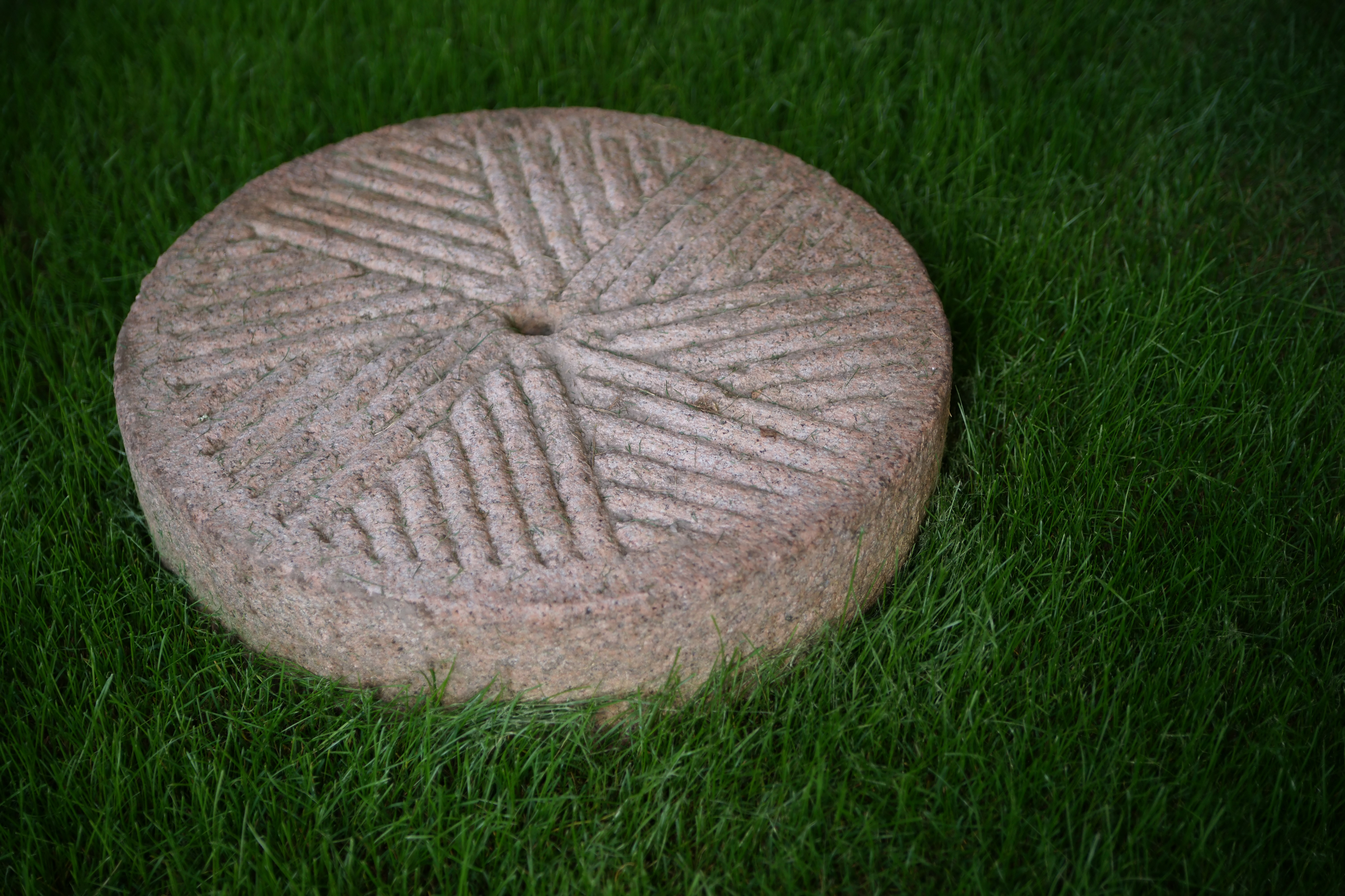 Reconstruction of an experiment conducted by Charles Darwin in his garden to measure the action of earthworms: a millstone, laid on the lawn and slowly sinking into the earth. Naturhistorisches Museum Wien.